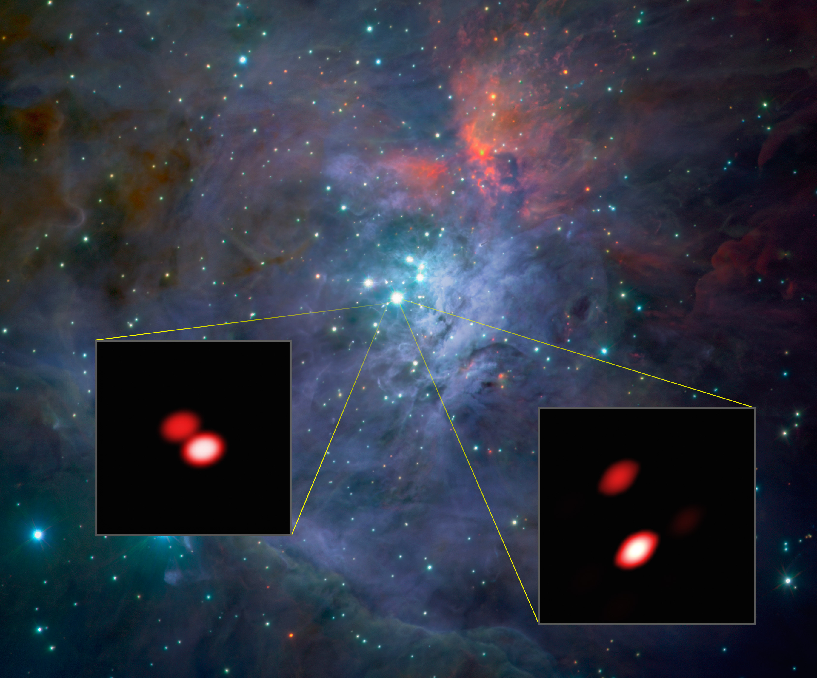 As part of the first observations with the new GRAVITY instrument the team looked closely at the bright, young stars known as the Trapezium Cluster, located in the heart of the Orion star-forming region. Already, from these first data, GRAVITY made a discovery: one of the components of the cluster (Theta1 Orionis F, lower left) was found to be a double star for the first time. The brighter double star Theta1 Orionis C (lower right) is also well seen. The background image comes from the ISAAC instrument on ESO's Very Large Telescope. The views of two of the stars from GRAVITY, shown as inserts, reveal far finer detail than could be detected with the NASA/ESA Hubble Space Telescope.